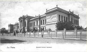 Escuela Normal Nacional Nº 1 Mary O. Graham. La Plata, Buenos Aires, Argentina.